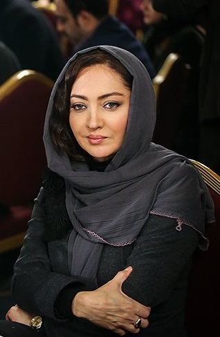 Niki Karimi